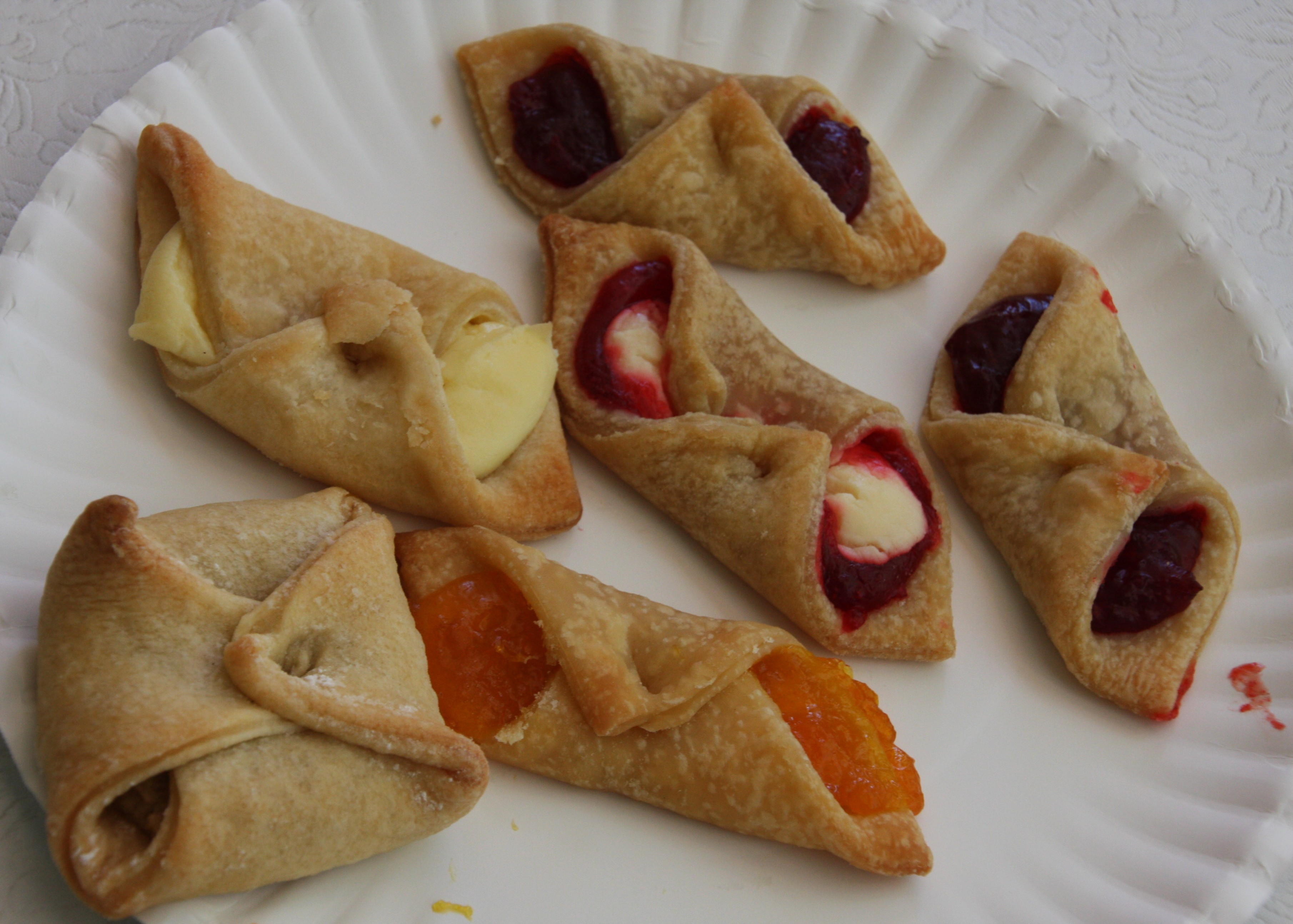 Six assorted kolache cookies served on a paper plate at the Czeck bakery in the Bohemian Commercial Historical District in Cedar Rapids, Iowa, United States